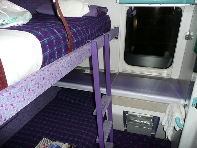 Caledonian Sleeper Standard Class double berth (bunk bed).